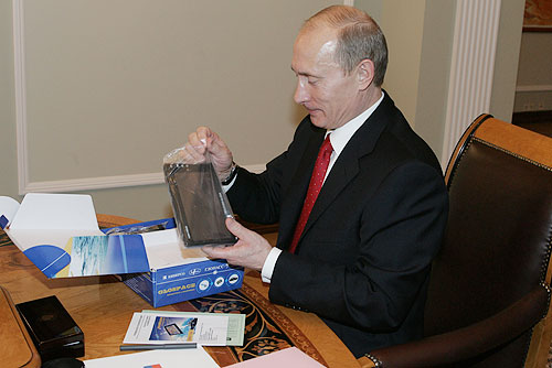 Novo-Ogaryovo: Meeting with permanent members of the Security Council. The President was given a demonstration of a navigational device using the GLONASS system which is designed for automobiles.